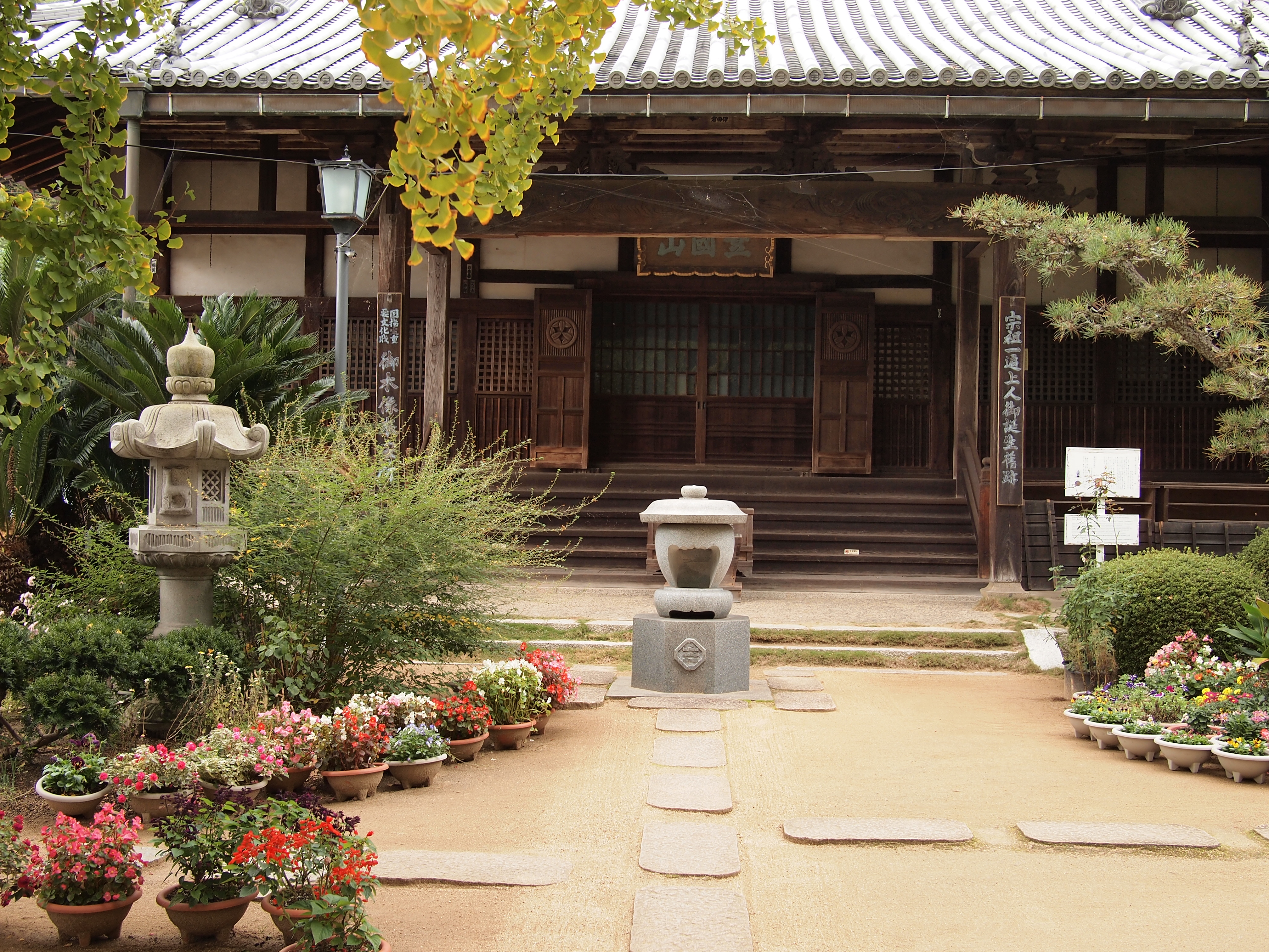 Hogonji (宝厳寺) Matsuyama Buddhist temple main hall